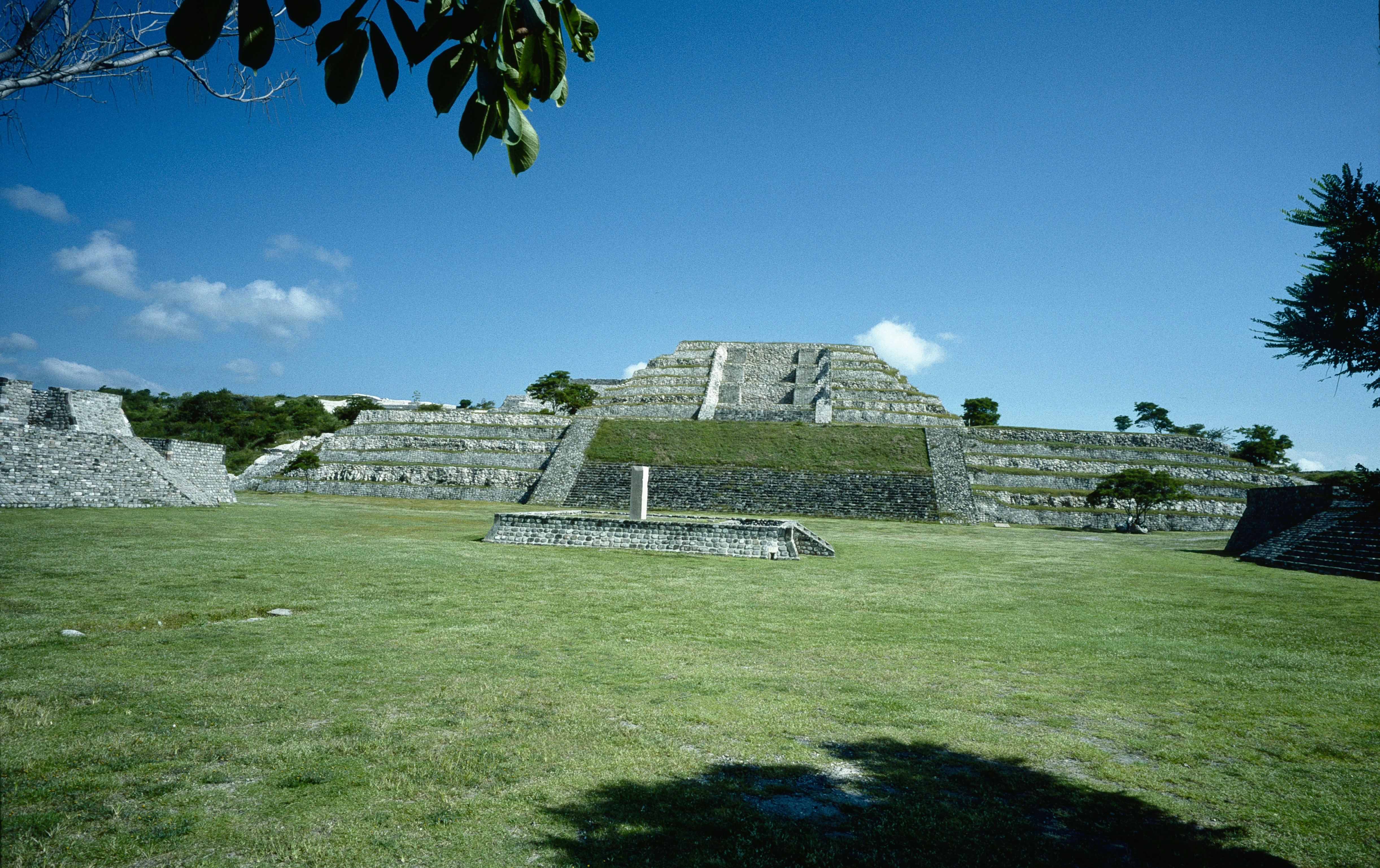 Xochicalco, Morelos, Mexico: Gran Pirámide